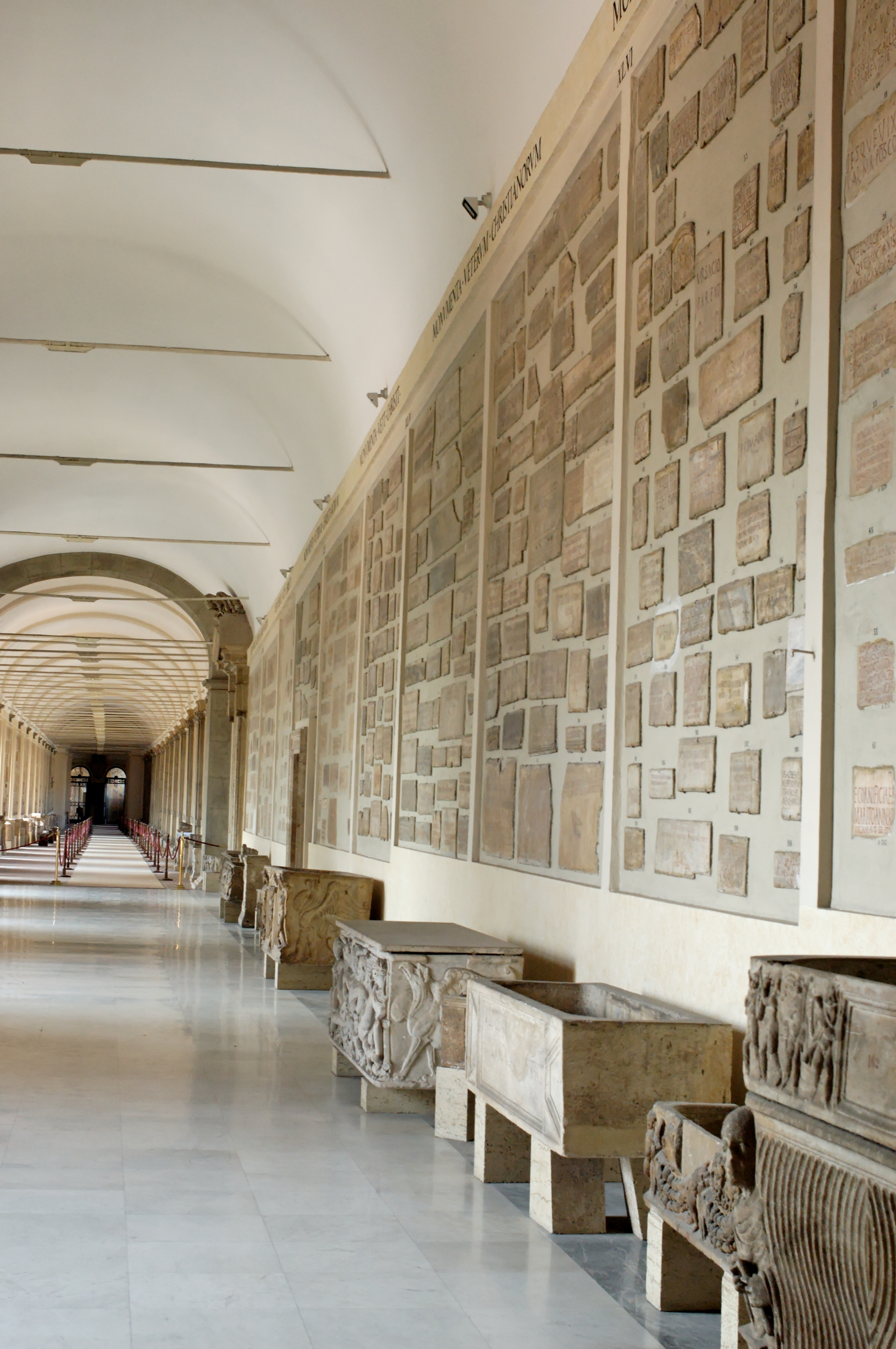 The Lapidary Gallery in the Vatican Museums.